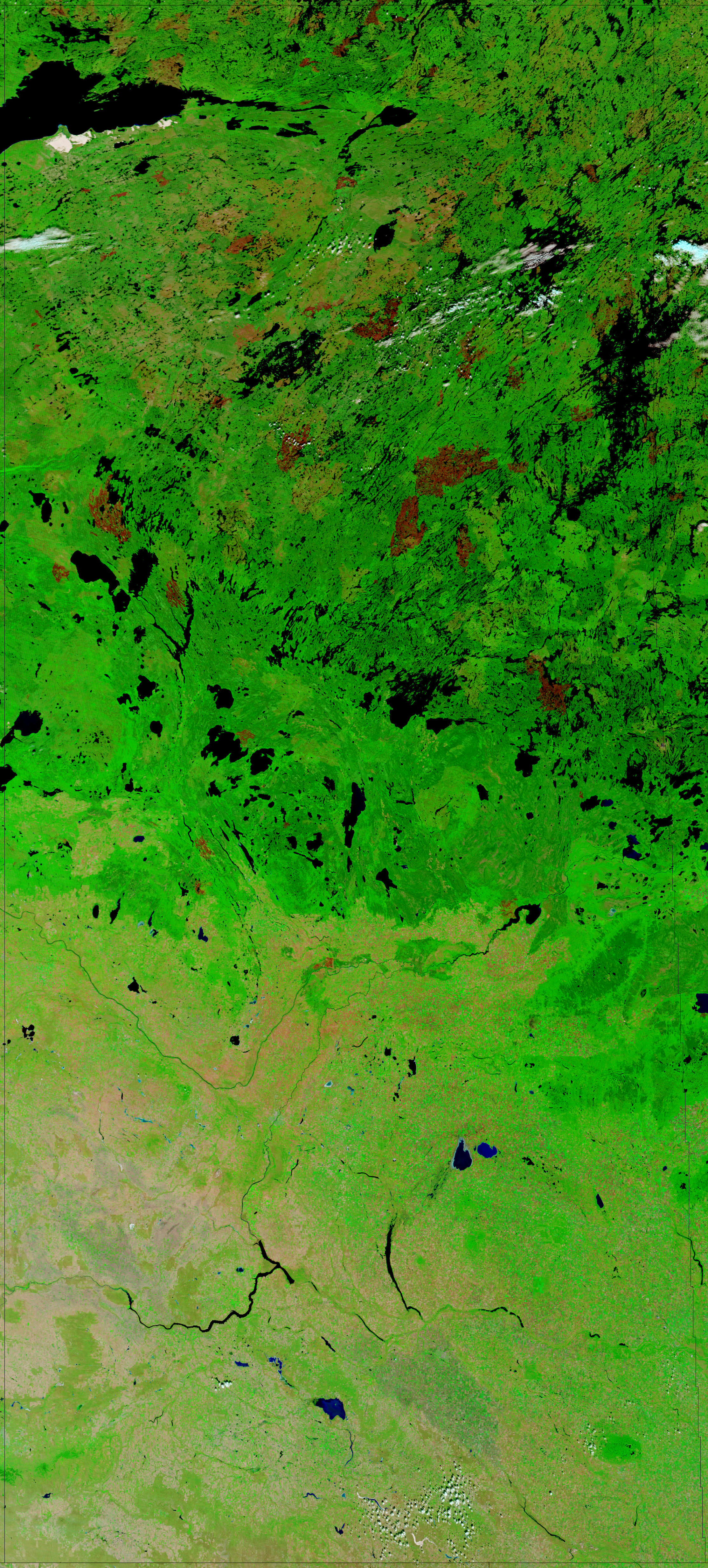 Portion of NASA map showing Saskatchewan